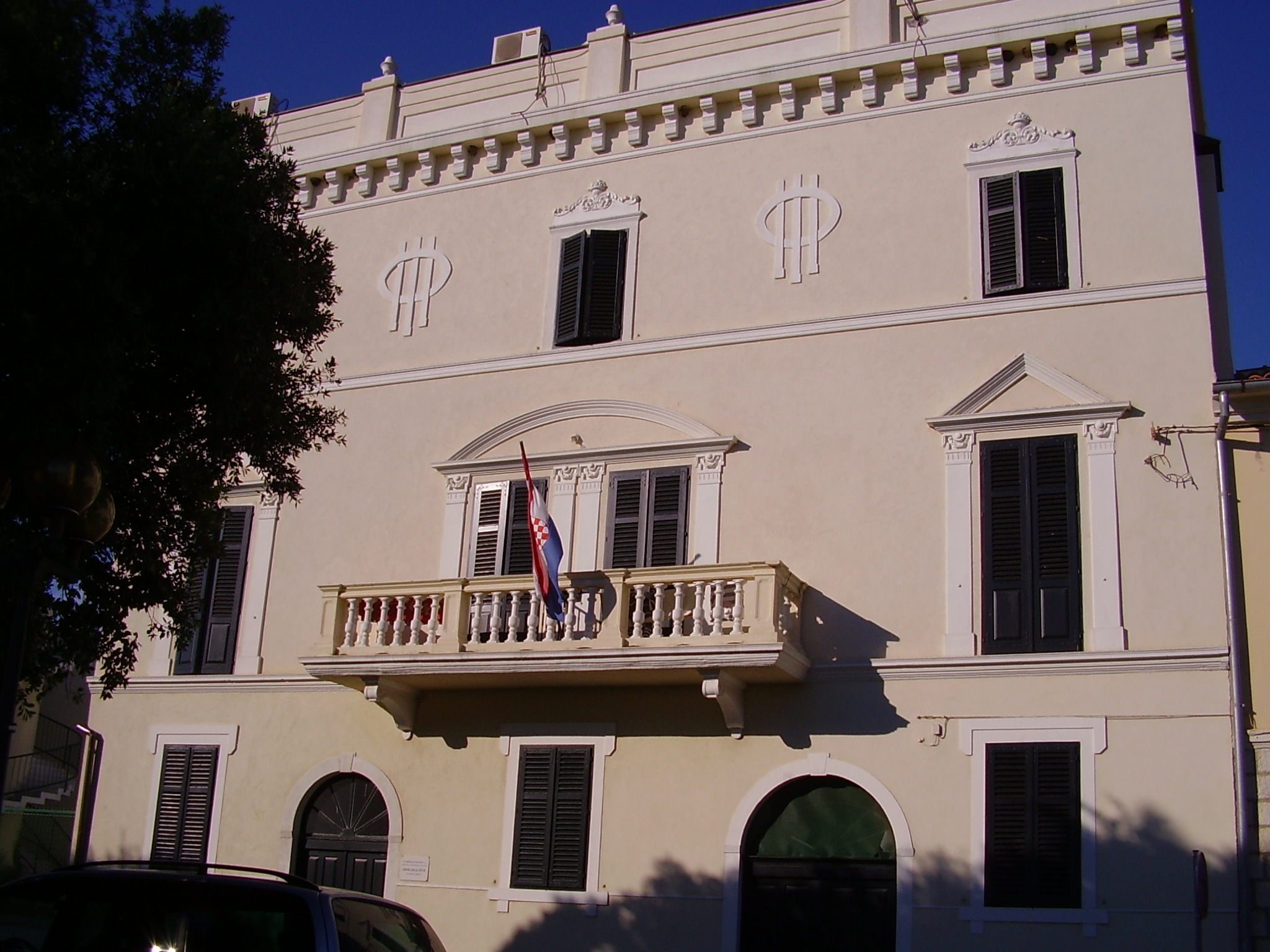 Commune Department in Sveti Filip i Jakov (Croatia)